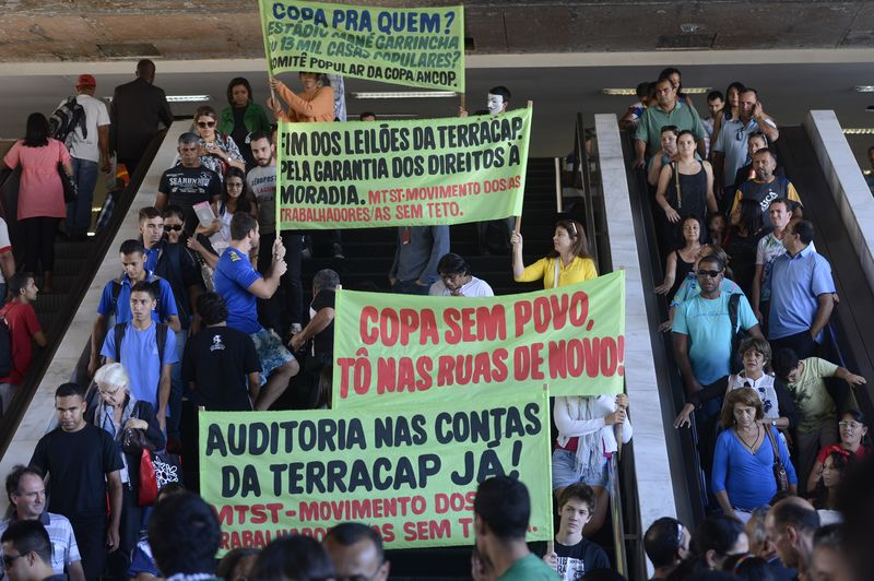 Members of the Cup Popular Committee protest with crosses next to Mané Garrincha National Stadium, as a hommage to nine people who died at work in the Cup stadiums.